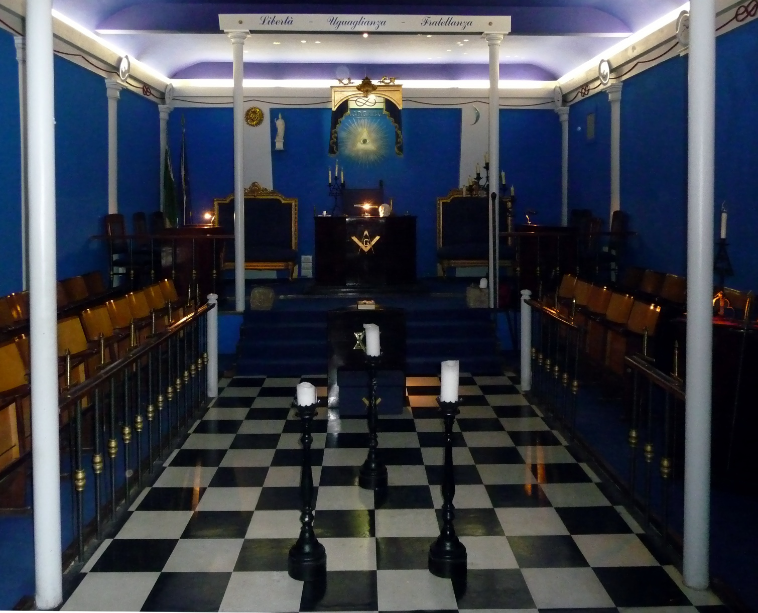 Masonic temple (Tempio massonico, Grande Oriente d'Italia), Via Ricasoli 70, Livorno, Tuscany, Italy